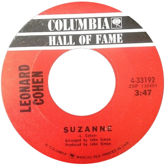 Side label of "Suzanne" by Leonard Cohen; Canadian vinyl "Hall of Fame" release